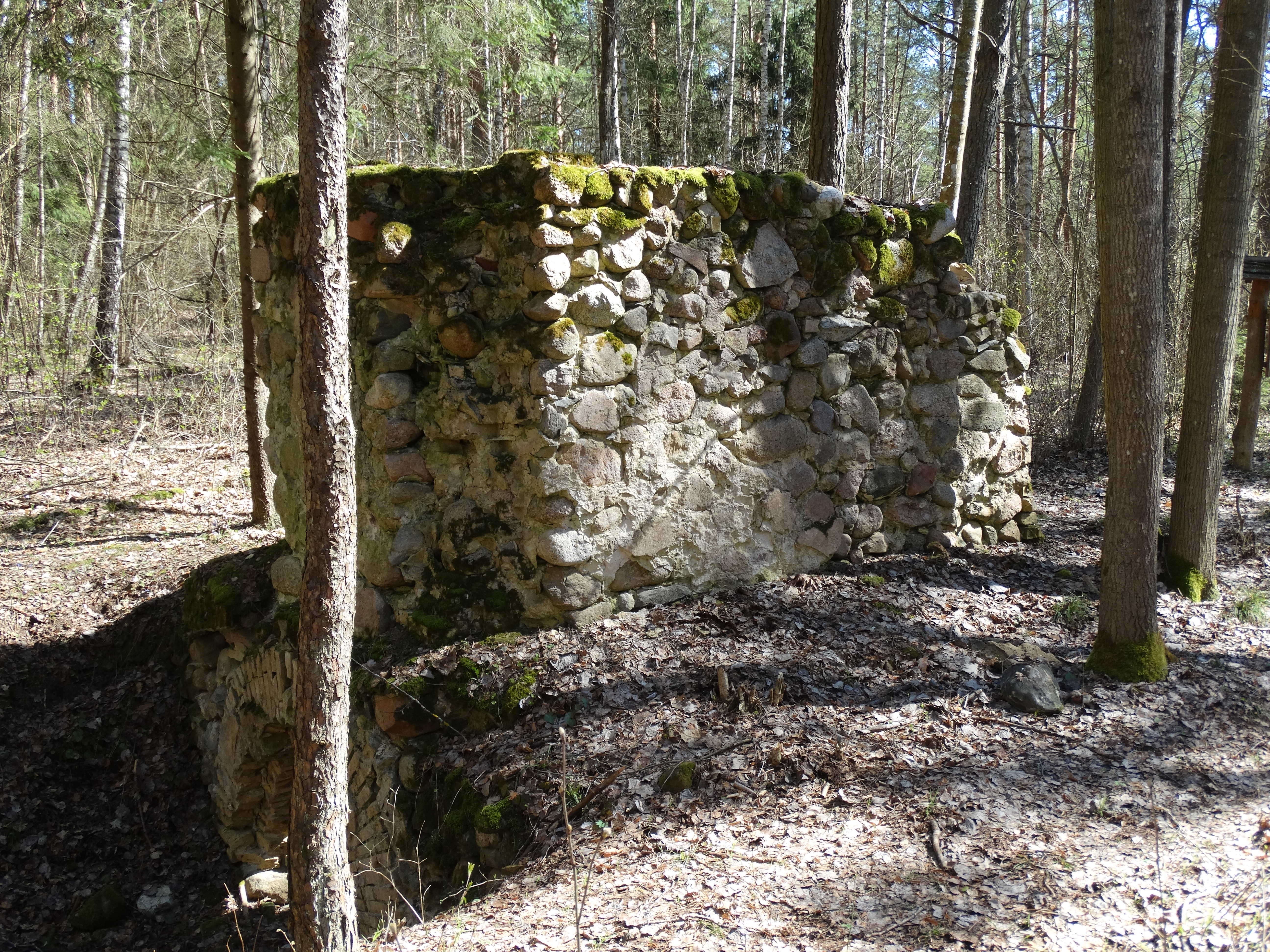 Chapel ruins (built by Hugo von Trautvetter), near Dūkštos, Vilnius district, Lithuania